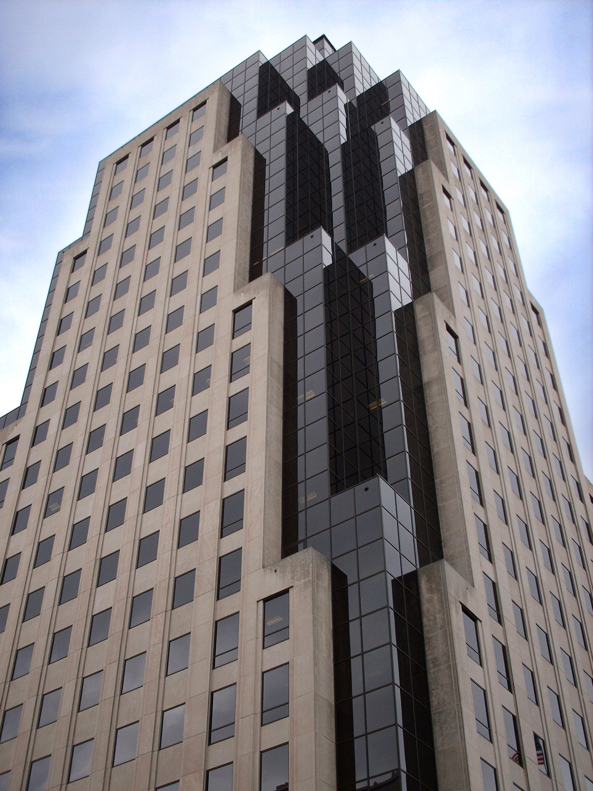 Regions Tower as seen from the intersection of Texas Street and Market Street facing southwest.